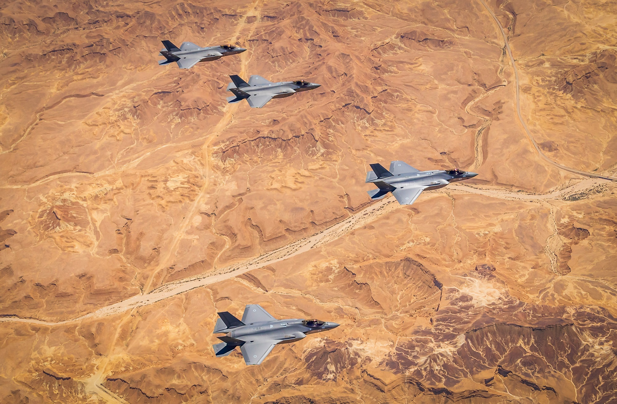 "Enduring Lightning" exercise of 140 Squadron of Israel along with US Air Force 34th Fighter Squadron, March 2020.